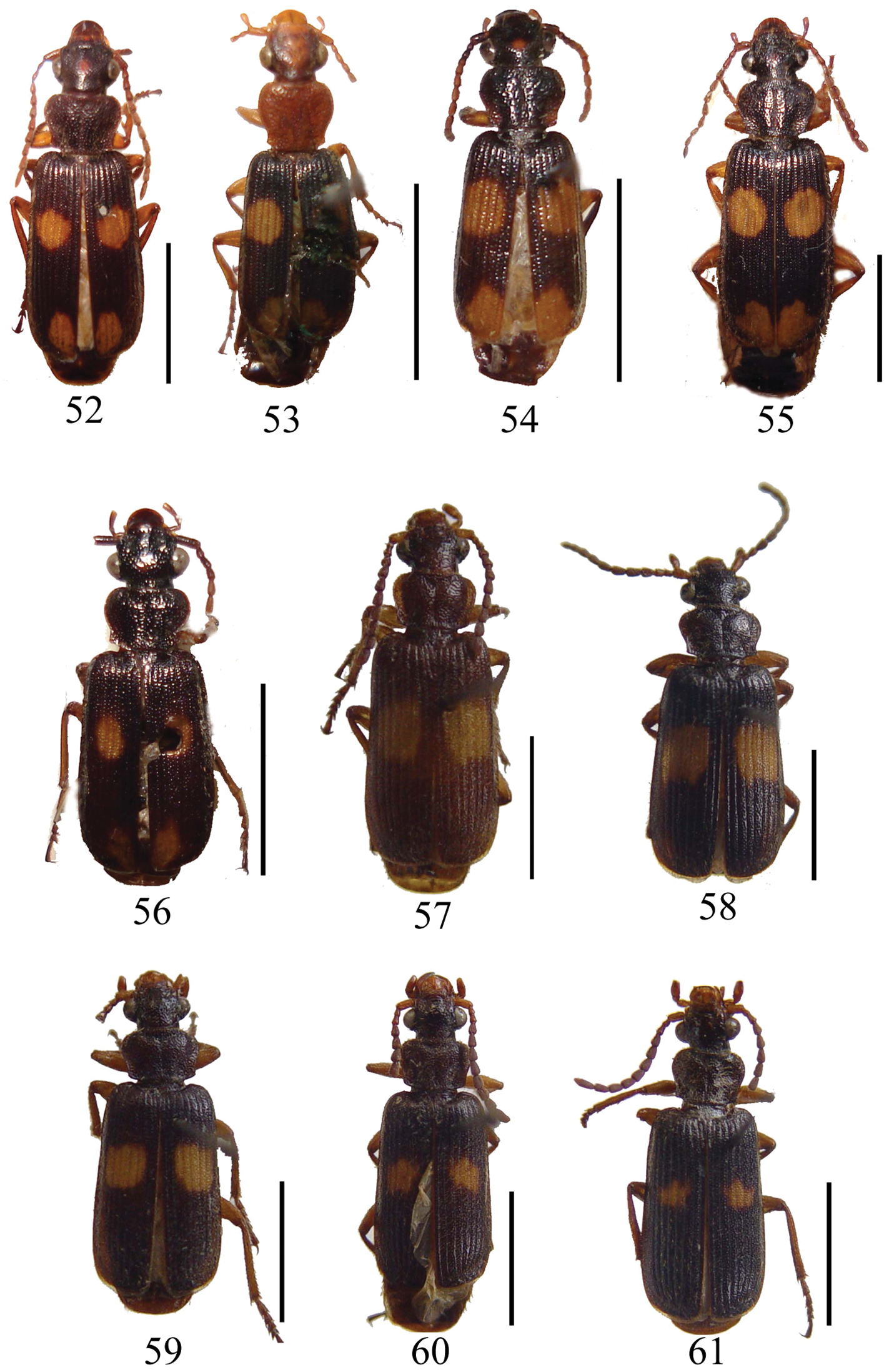 Habiti of Macrocheilus (dorsal view): Macrocheilus tripustulatus (holotype) 53 Macrocheilus chaudoiri (holotype) 54 Macrocheilus nigrotibialis (holotype) 55 Macrocheilus bensoni (male) 56 Macrocheilus deuvie (holotype) 57 Macrocheilus fuscipennis (holotype) 58 Macrocheilus solidipalpis (holotype) 59 Macrocheilus cheni (holotype) 60 Macrocheilus quadratus (holotype) 61 Macrocheilus sinuatilabris (holotype). Scale bar: 5.0 mm.